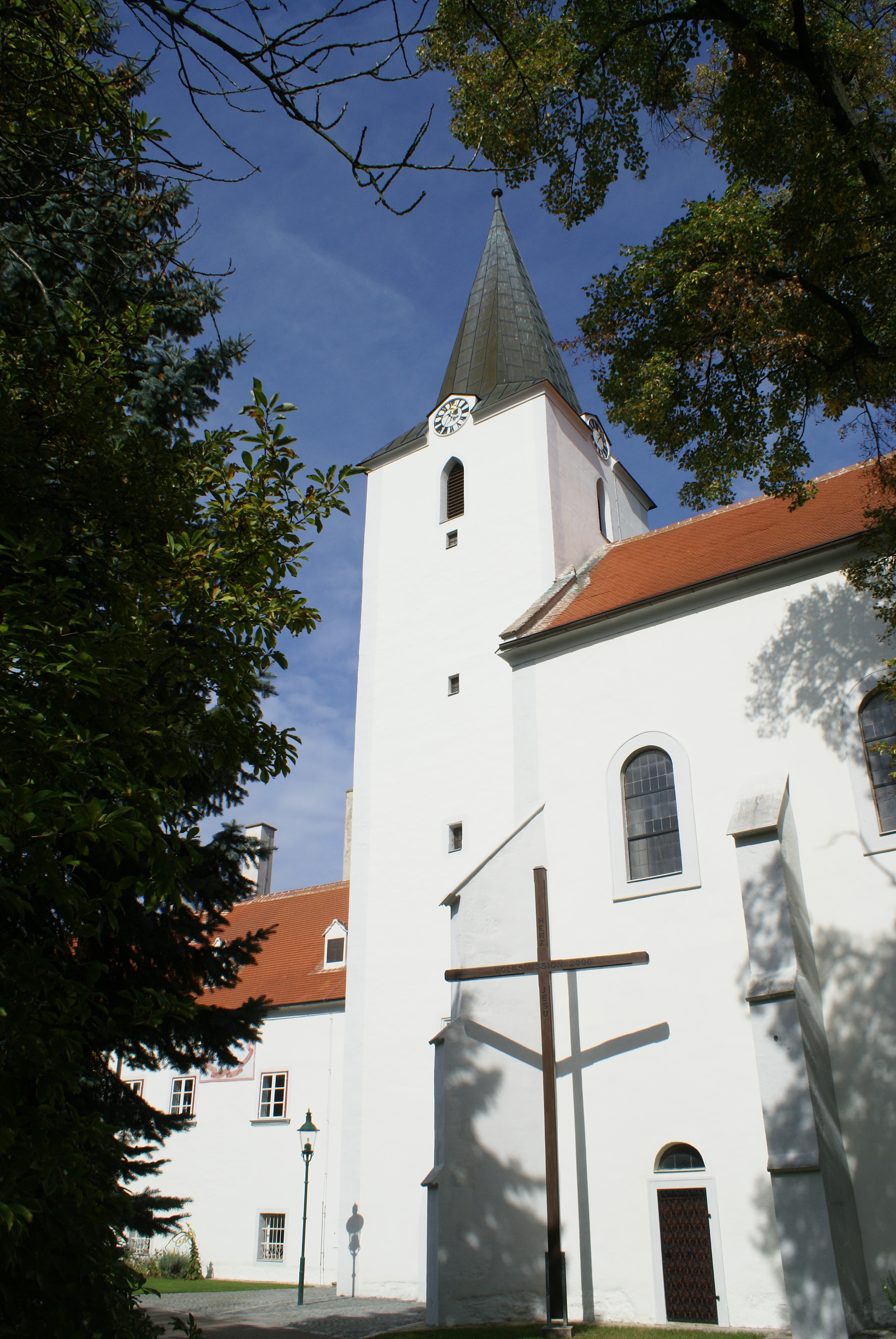 Catholic Parish Church of the Assumption